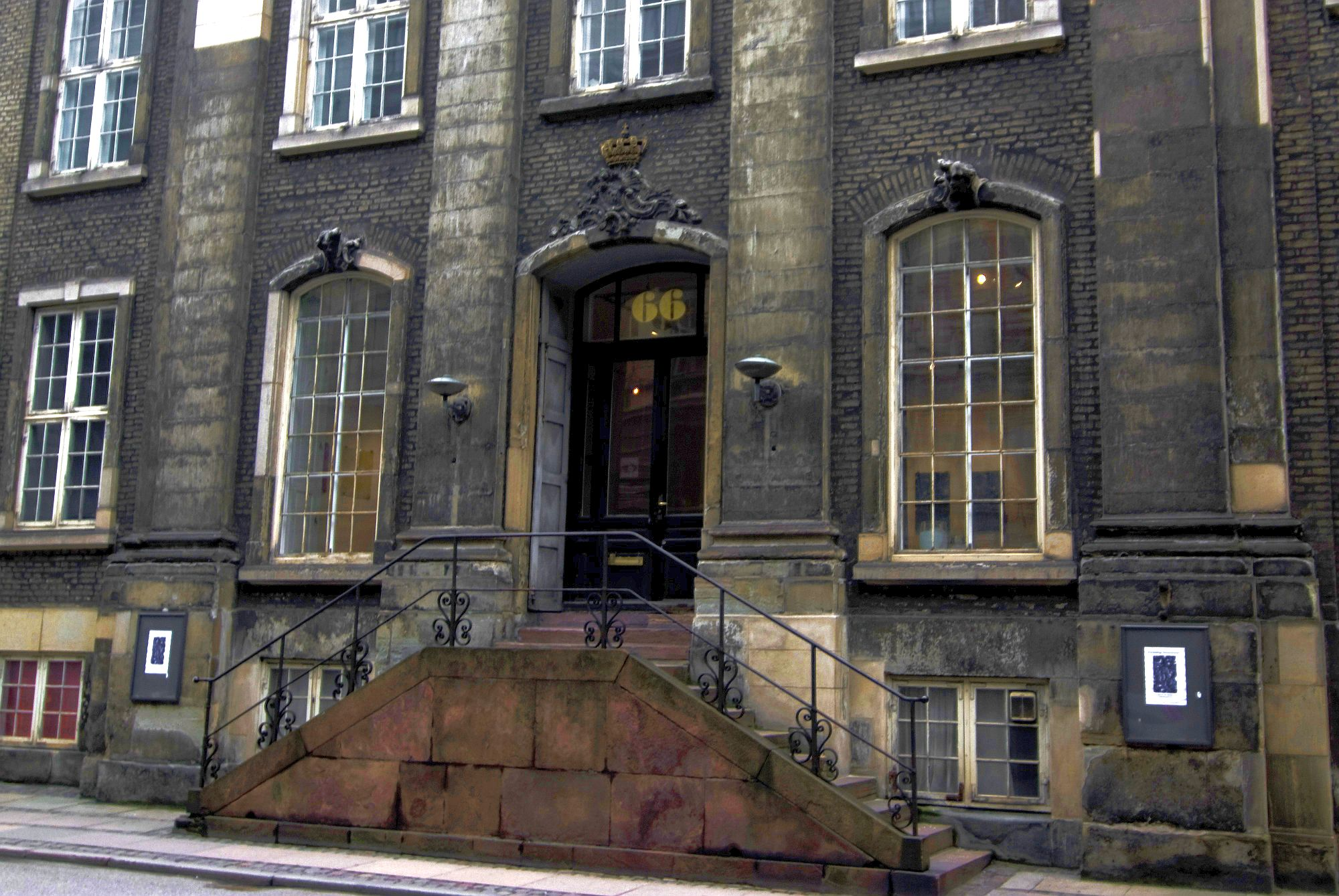 Bredgade 66 in central Copenhagen. This photo was uploaded as a part of an conceptual idea: FindVej NoPic.